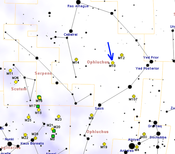 Map of M10